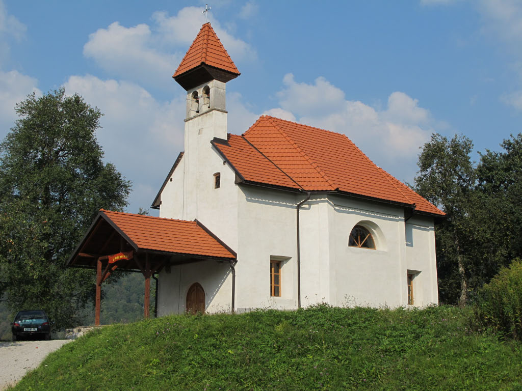 Renovated church in Durnbach